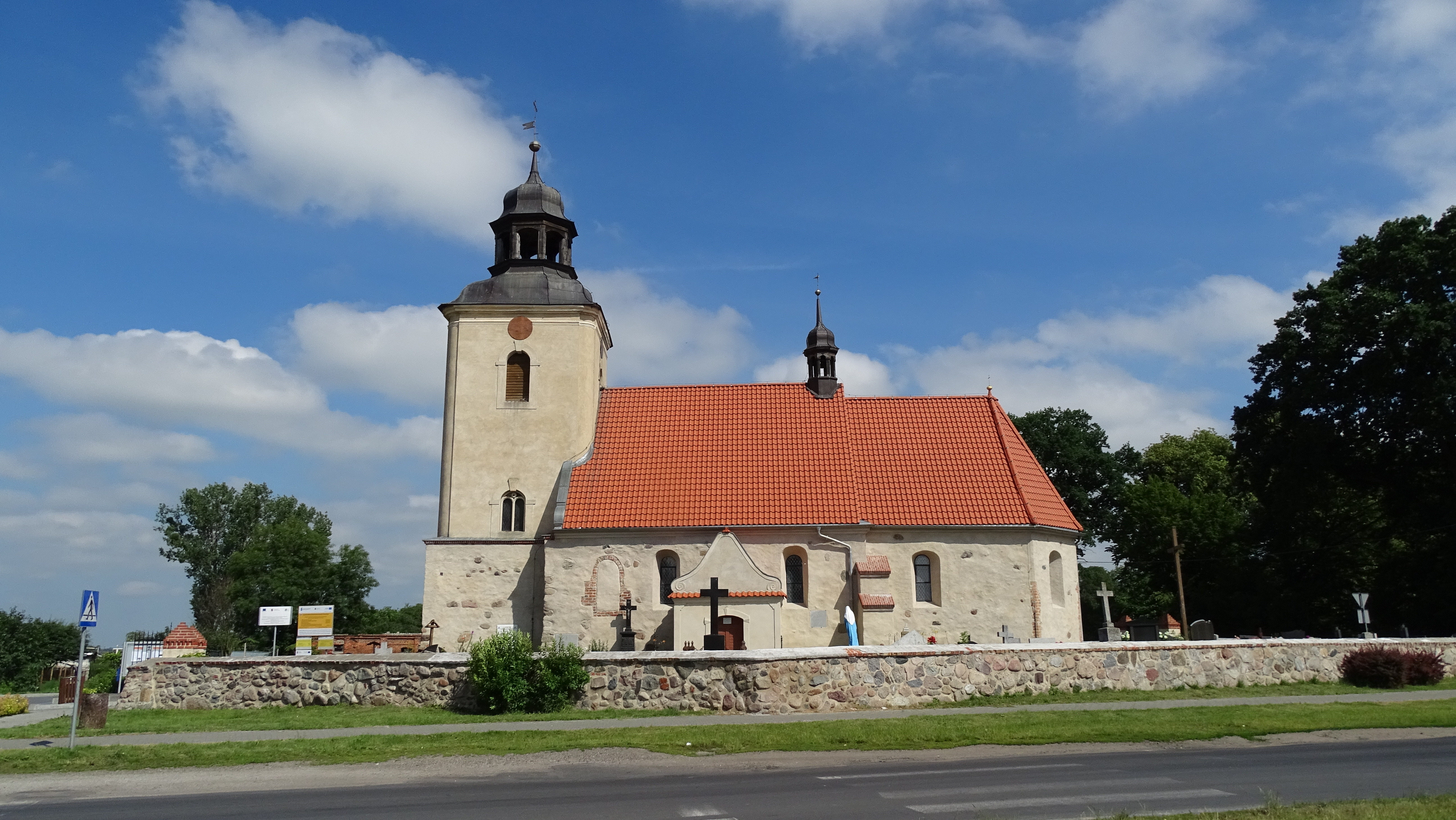 Nawra, Gmina Chełmża. Church of the Catherine of Alexandria. Was built probably in the XIV century.